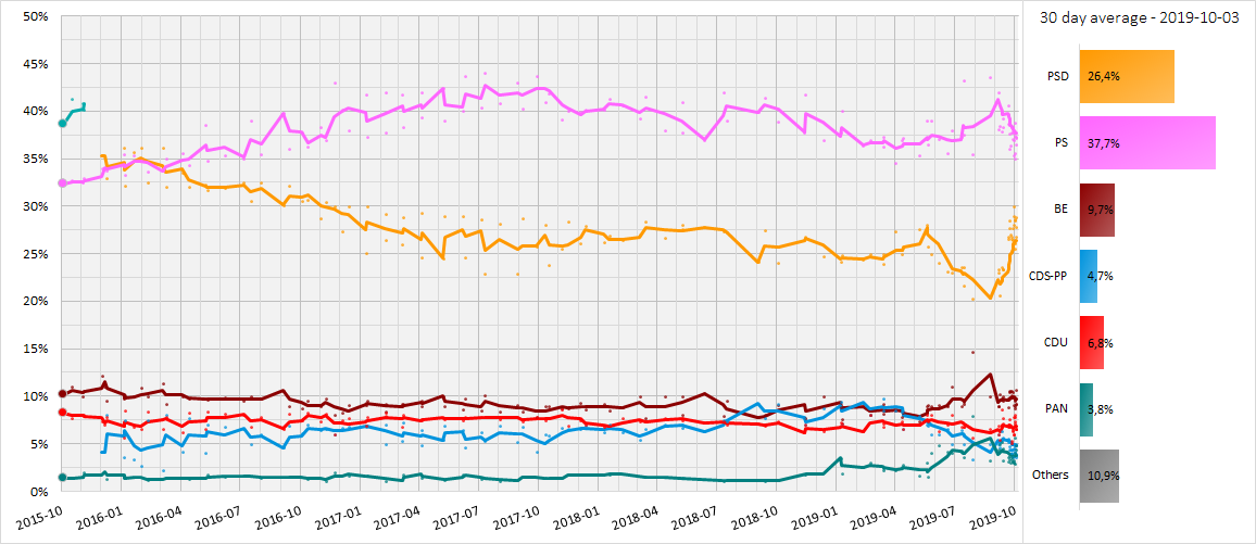 Graph showing a 30 day moving average of Portuguese opinion polls from the election in 2015 to the election in 2019. Each line corresponds to a political party.